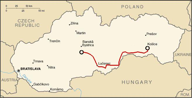 Railway track Zvolen-Kosice